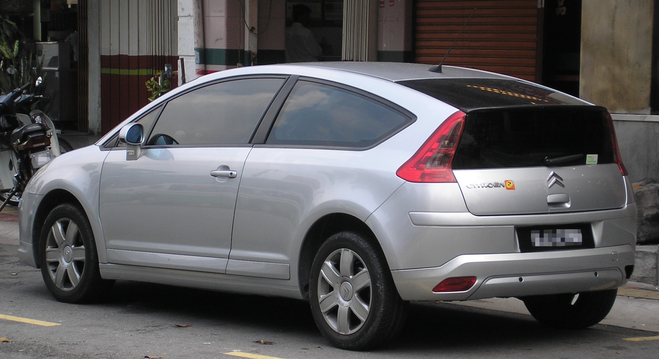 Rear quarter view of a first generation Citroën C4 coupé in Imbi, Kuala Lumpur, Malaysia.